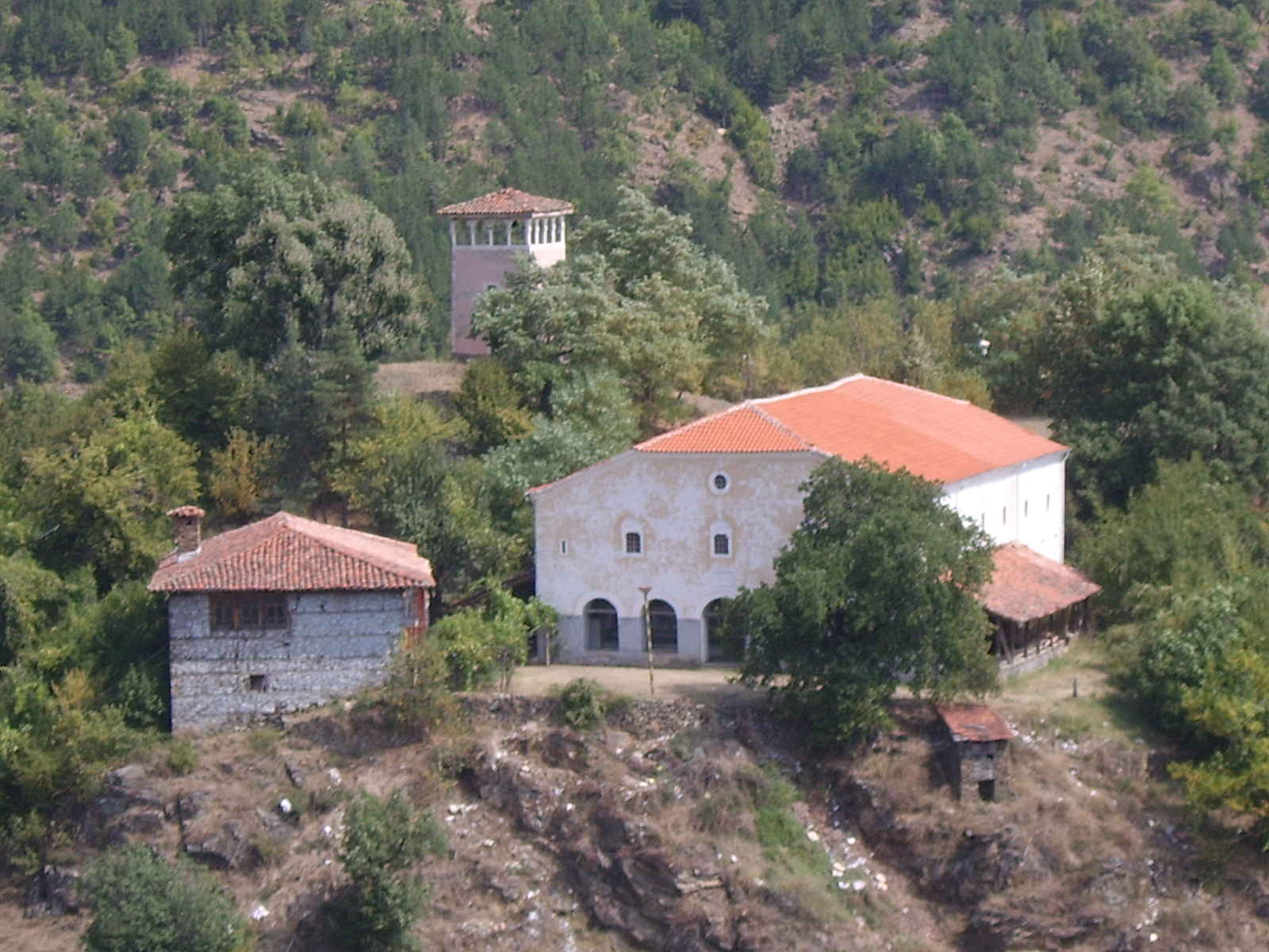 St.George monastery near Gega, Bulgaria.